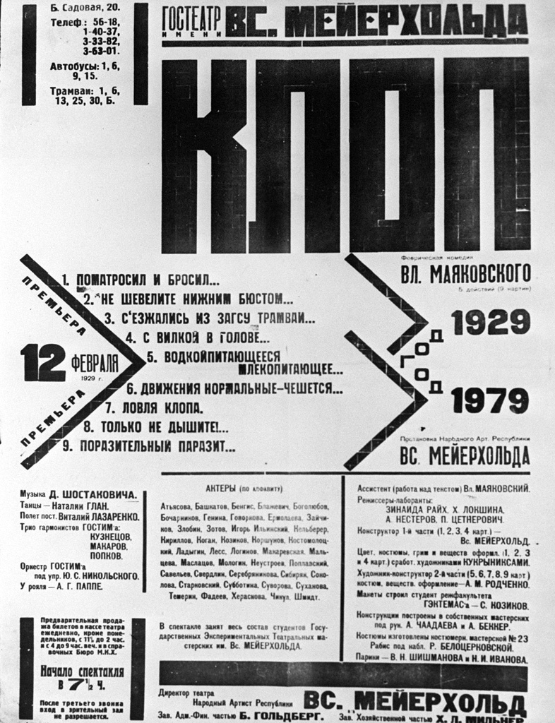 “Premiere poster of "Bug" play based on Vladimir Mayakovsky's work”. Reproduction of the premiere poster of "Bug" play based on Vladimir Mayakovsky's work by Kukryniksy artists and A. Rodchenko. The play was staged at the Meyerhold Theatre in 1929. The original of the poster is at the Bakhrushin Theatre Museum.